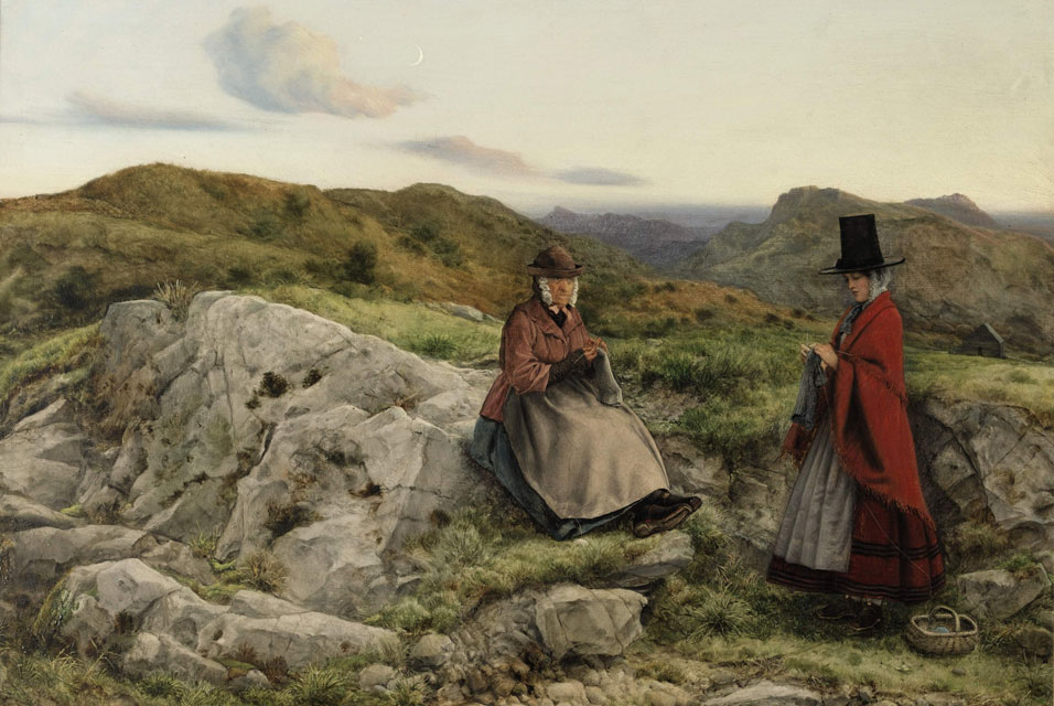 Welsh Landscape with Two Women Knitting, painting by William Dyce, 1860, National Museum Wales